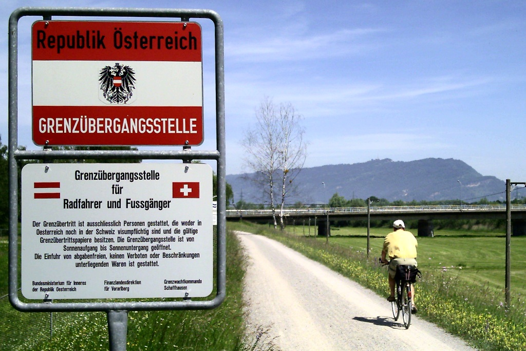 Passage for cyclists and pedestrians between Switzerland and Austria called "The Green Border". The border patrol is watching this area from hidden places for irregular pass controls. May 27, 2005, 1.15 PM. See where this picture was taken. [?]